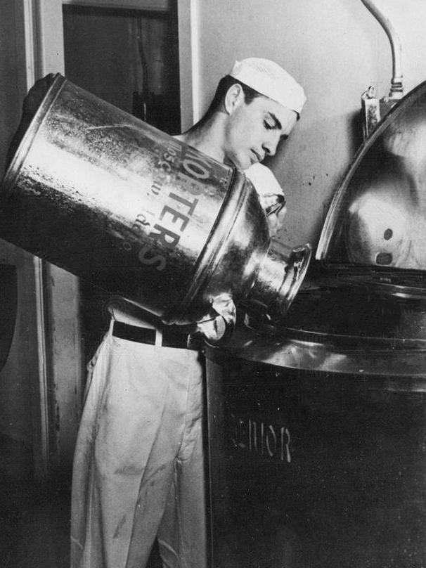 1939 Press Photo Moscow ID Olympic Boxer Ted Kara Lifting Milk Cans - ner17181